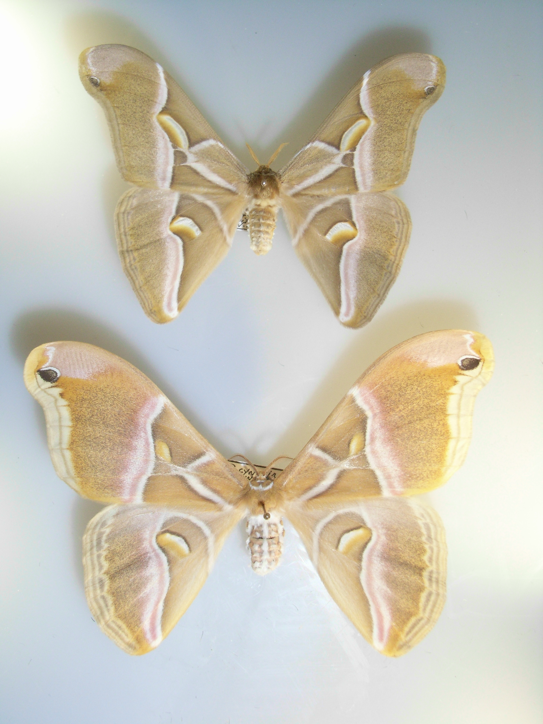 Samia cynthia parisiene female(top) Samia cynthia canningi female India (bottom)Ex coll. Felix Stumpe